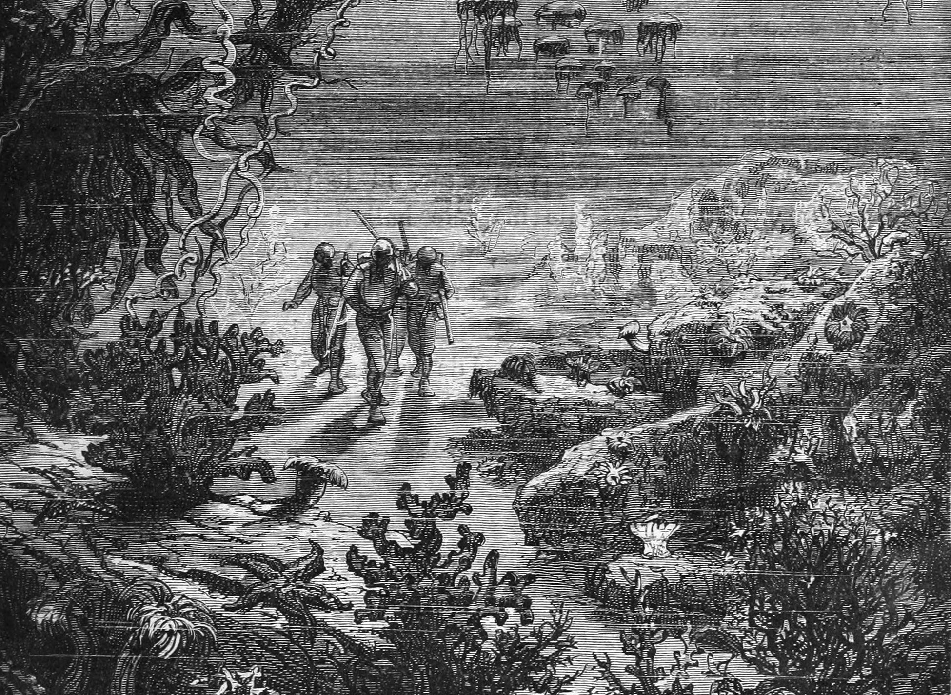 Image from scan vingtmillelieue00vern_orig_0131.jp2